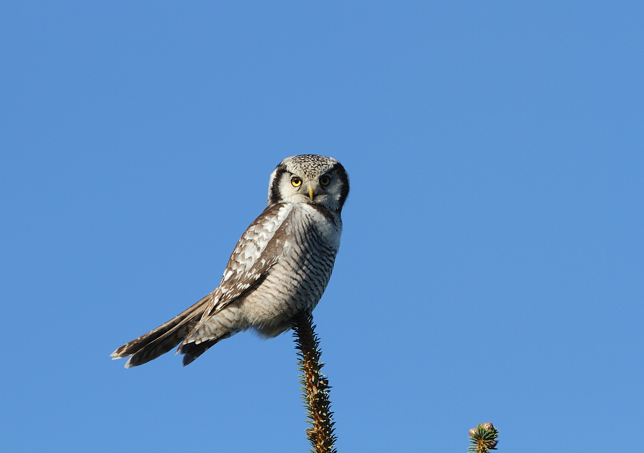 Northern Hawk Owl Surnia ulula, Lista, Norway.